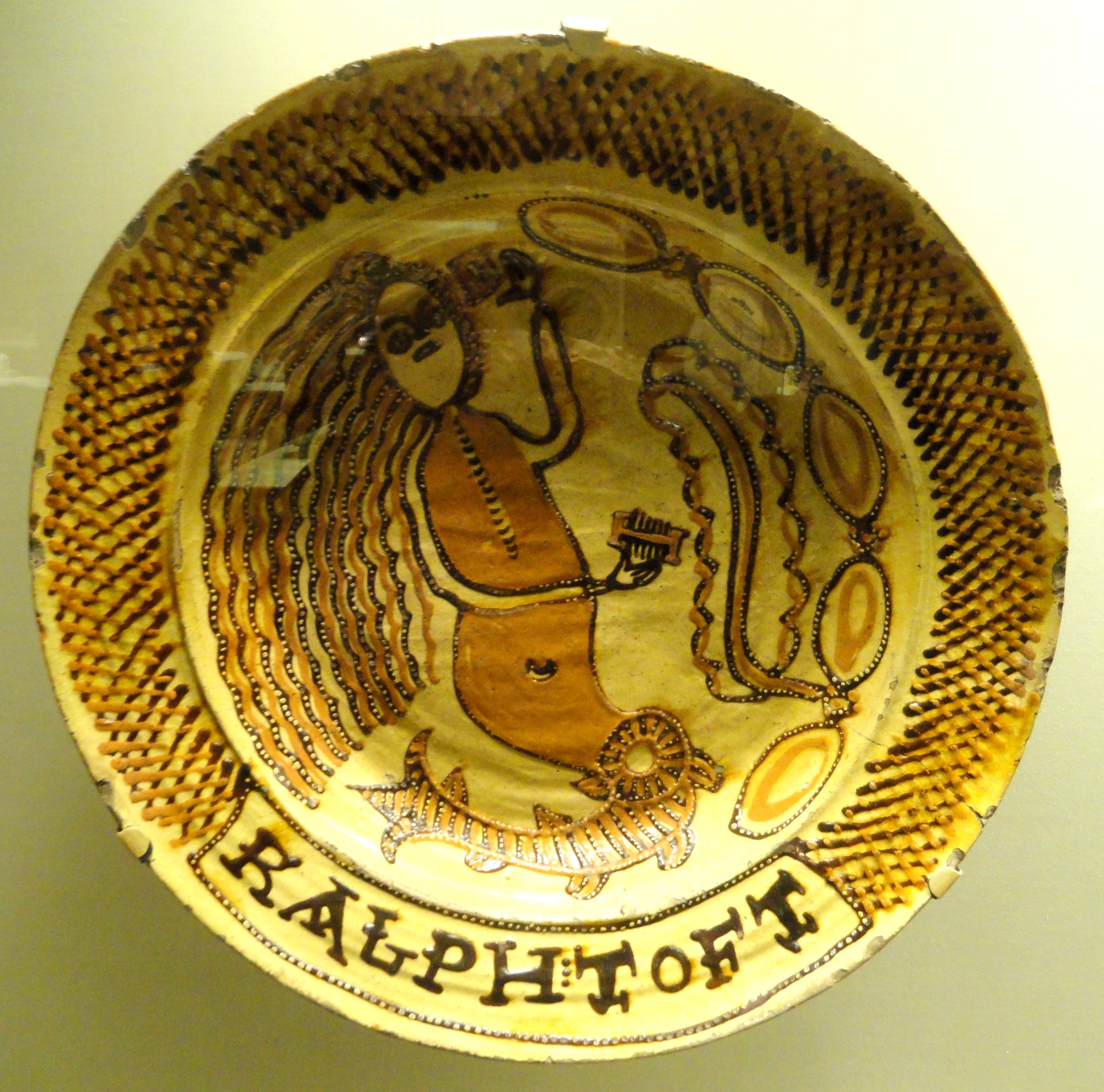 Exhibit in the Nelson-Atkins Museum of Art, Kansas City, Missouri, USA. ; I took this photograph and release it into the public domain.